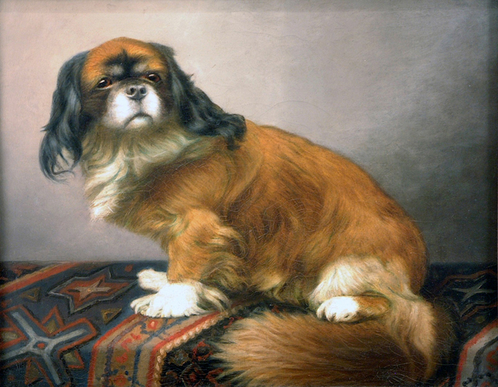 Tibetan Spaniel